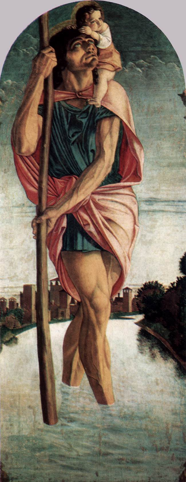 Detail of the Polyptych of San Vincenzo Ferreri (lower left)